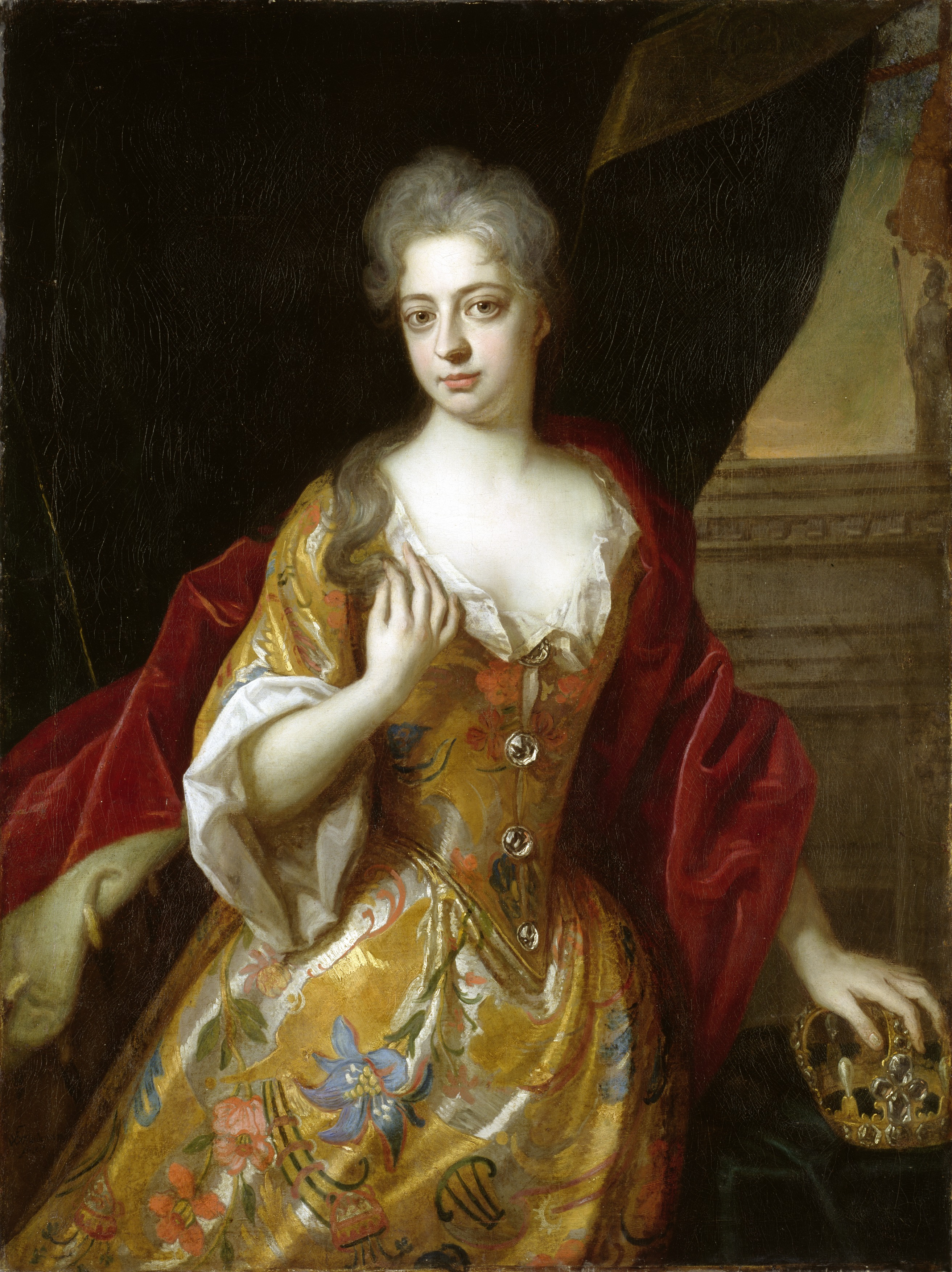 Sophia Dorothea of Hannover as Crown Princess of Prussia